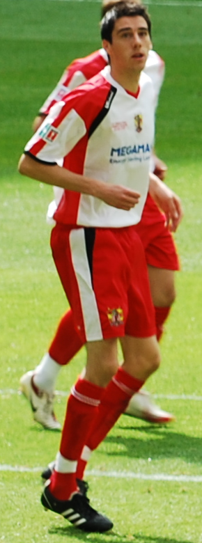 Peter Vincenti. Image cropped from original at flickr.